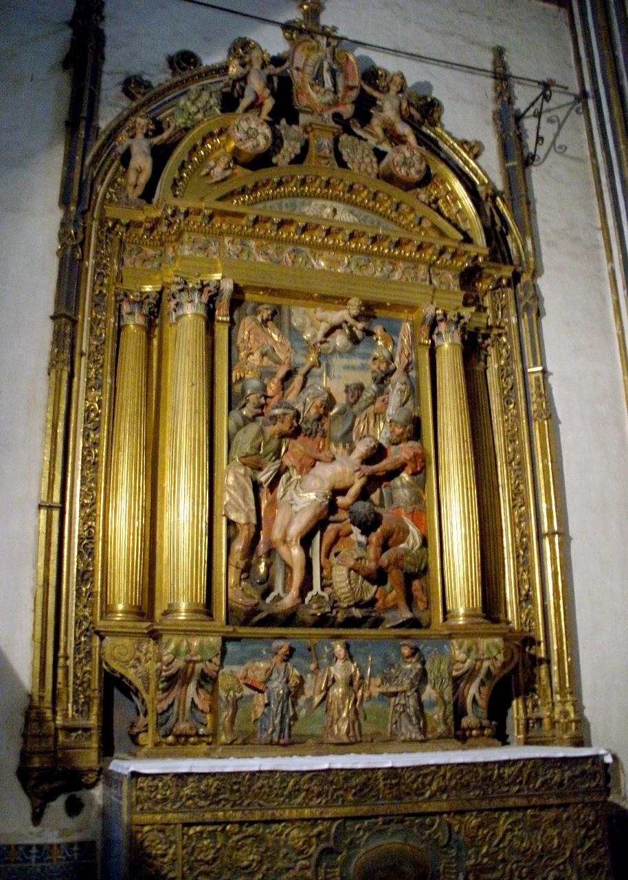 Capilla de San Lorenzo, Catedral Nueva de Salamanca (España)